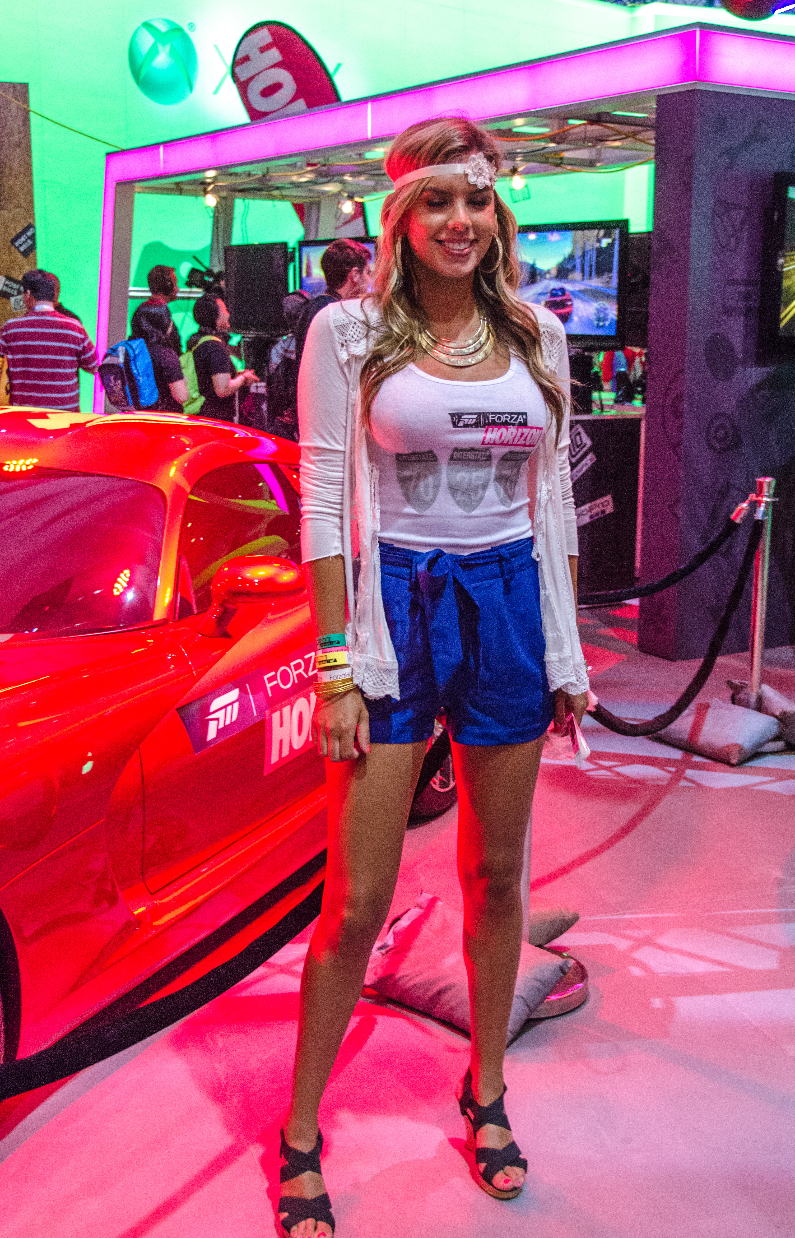 Booth-babe at E3 2012